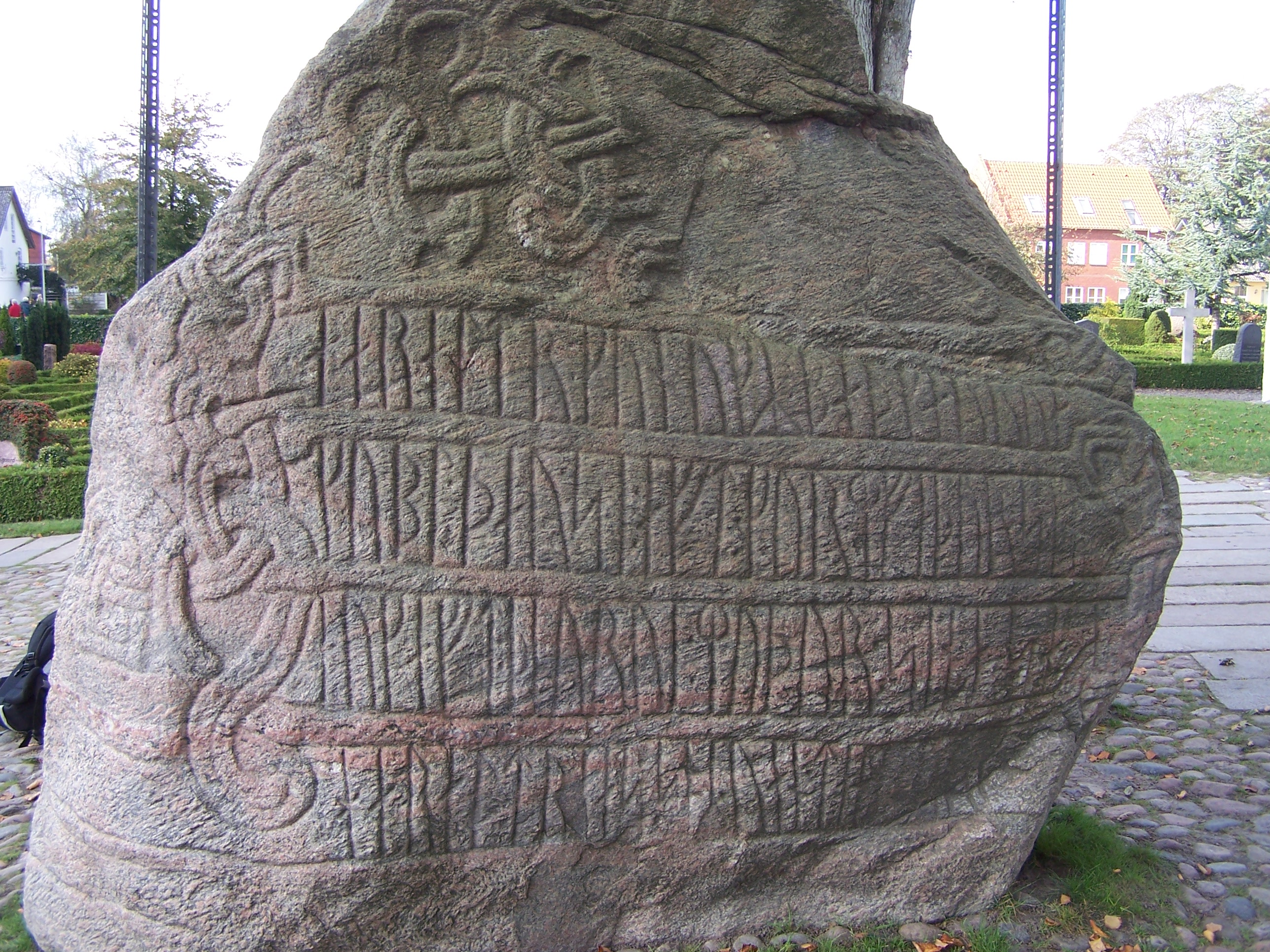 Jelling rune stone, text side.